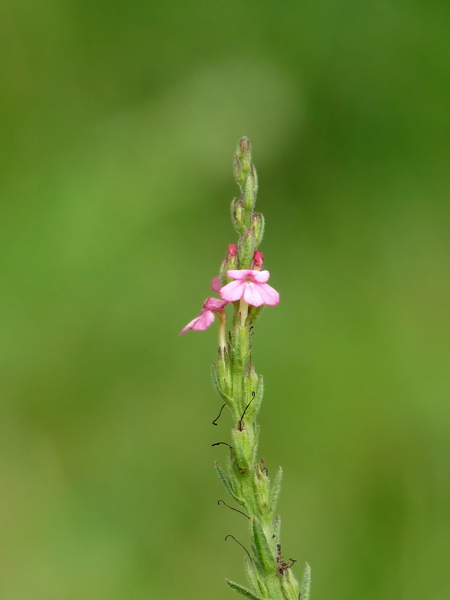 Striga bilabiata is a Striga, commonly known as Witchweed or Witches weed, is a genus of parasitic plants that occur naturally in parts of Africa, Asia, and Australia. It is in the family Orobanchaceae. Some species are serious pathogens of crop cereals, with the greatest effects being in savanna agriculture in Africa. It also causes considerable crop losses in other regions, including other tropical and subtropical crops in its native range and in the Americas.